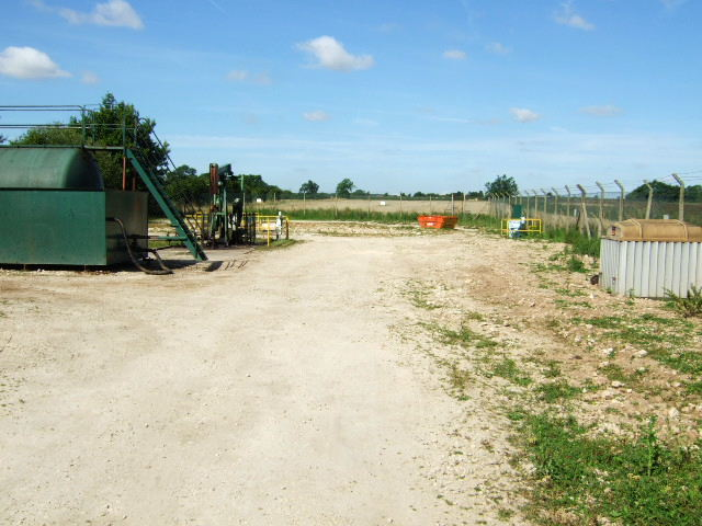 Nodding Donkey This nodding donkey oilwell is working, but there is no information about it on the fence surrounding the site.